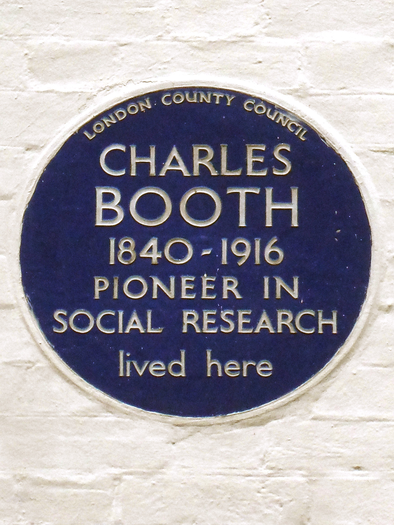 Blue plaque erected in 1951 by London County Council at 6 Grenville Place, South Kensington, London SW7 4RW, Royal Borough of Kensington and Chelsea